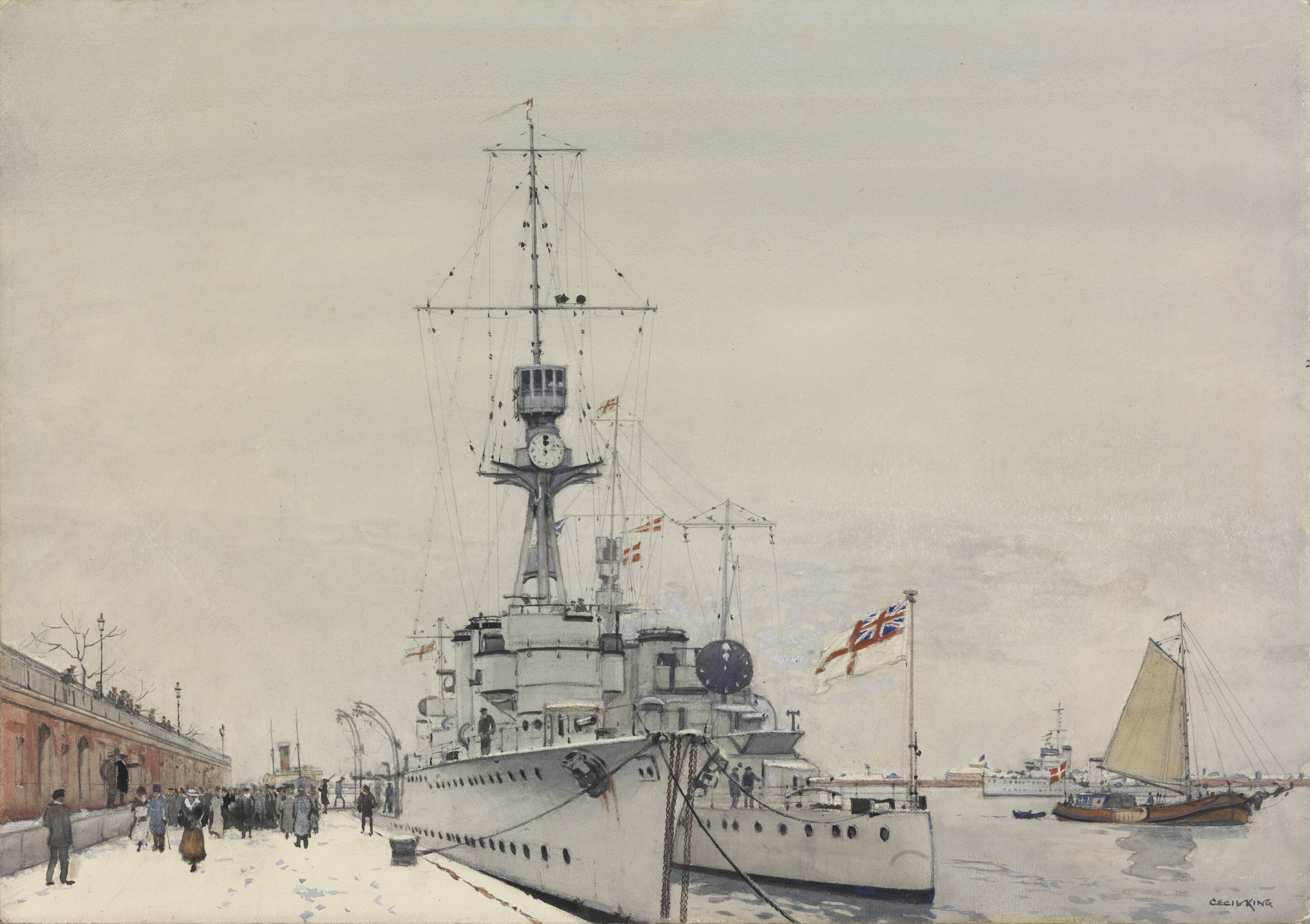 Copenhagen December 1918 - "HMS Concord" and "HMS Cardiff" alongside the "langelinie" image: bow view of two warships anchored alongside each other at the dockside; to the right a small sailing boat and a distant view of another warship.